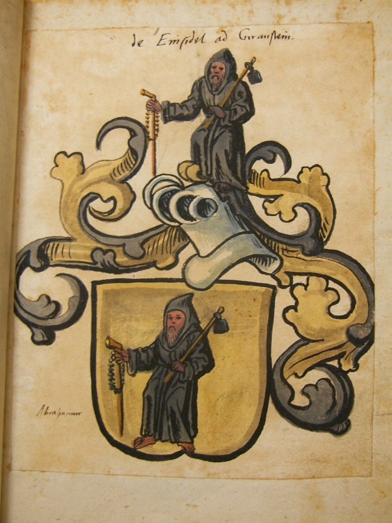 Page (or page detail) from a 16th century German armorial („Allerlay Wapen“) „De Einsidel ad Gnanstein“ (= von Einsiedel zu Gnandstein)